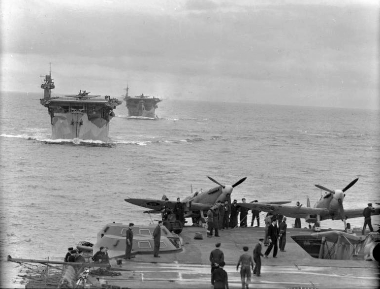 The Royal Navy escort carriers HMS Biter (D97) and HMS Avenger (D14) underway in line astern from the aircraft carrier HMS Victorious (R38). Two Supermarine Seafires of 884 Naval Air Squadron, Fleet Air Arm, can be seen at the far end of the flight deck of HMS Victorious.